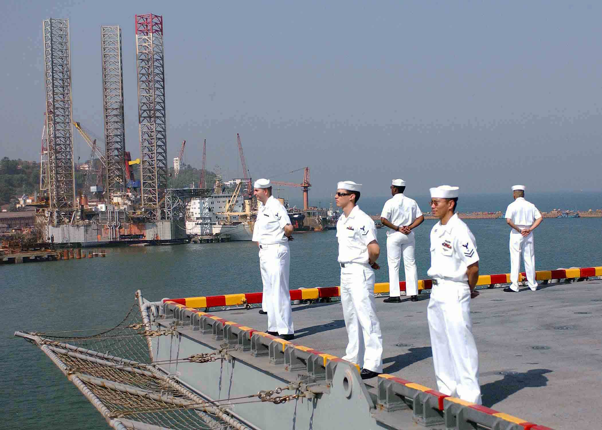 Goa, India (Mar. 9, 2004) - Sailors aboard the amphibious assault ship USS Boxer (LHD 4) “man the rails” as the ship enters Mormugao Harbor in Goa, India. Boxer, a Wasp-class amphibious assault ship, is the first U.S. Navy warship to visit the tropical port. Boxer recently completed the offload of Marines and equipment in support of troop rotations in Iraq and is scheduled to return to its homeport of San Diego, in April. U.S. Navy photo by Photographer's Mate 3rd Class Christopher Elmini. (RELEASED)